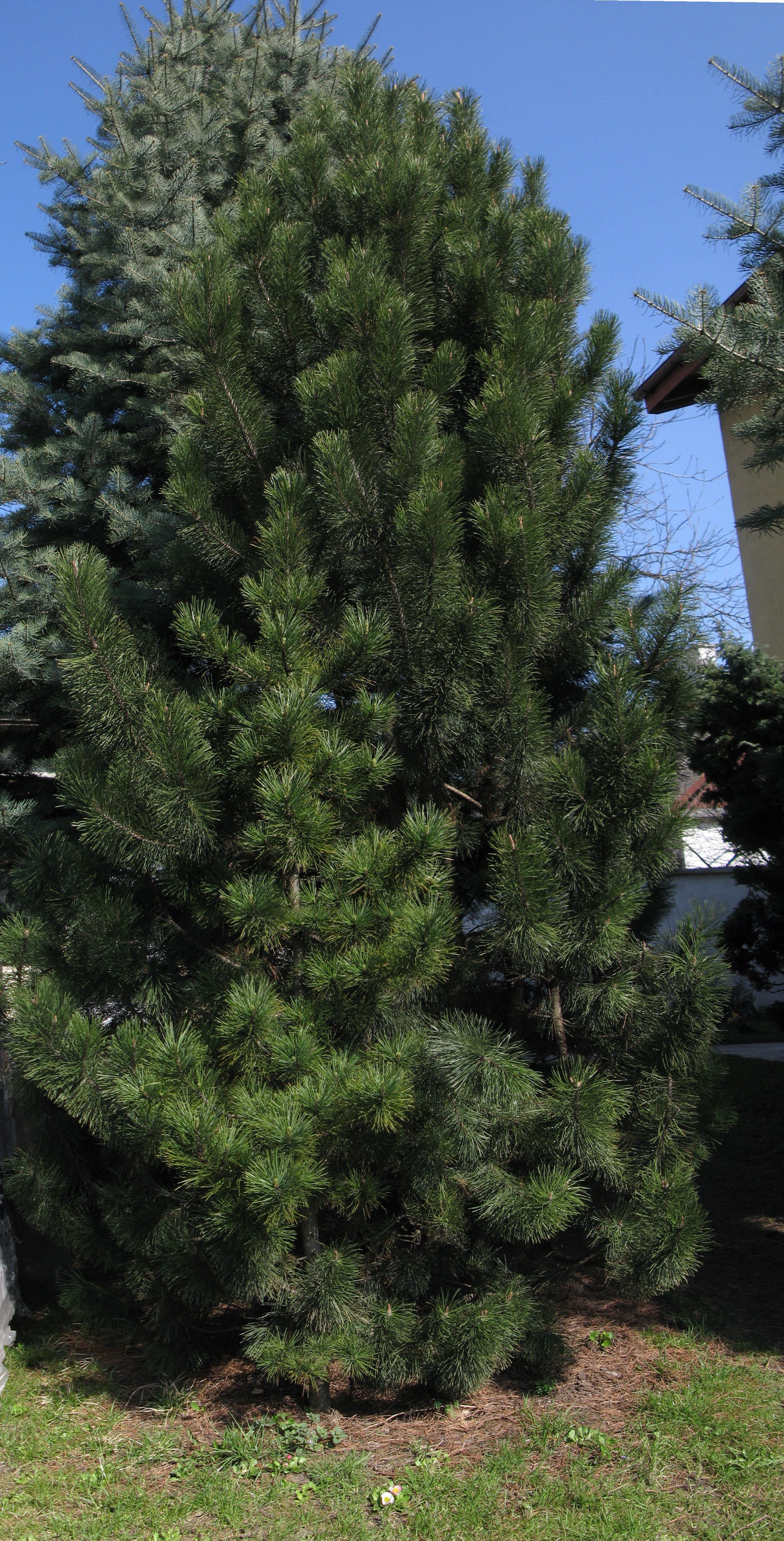 Pinus mugo nothosubsp. rotundata young tree, Marki, Poland